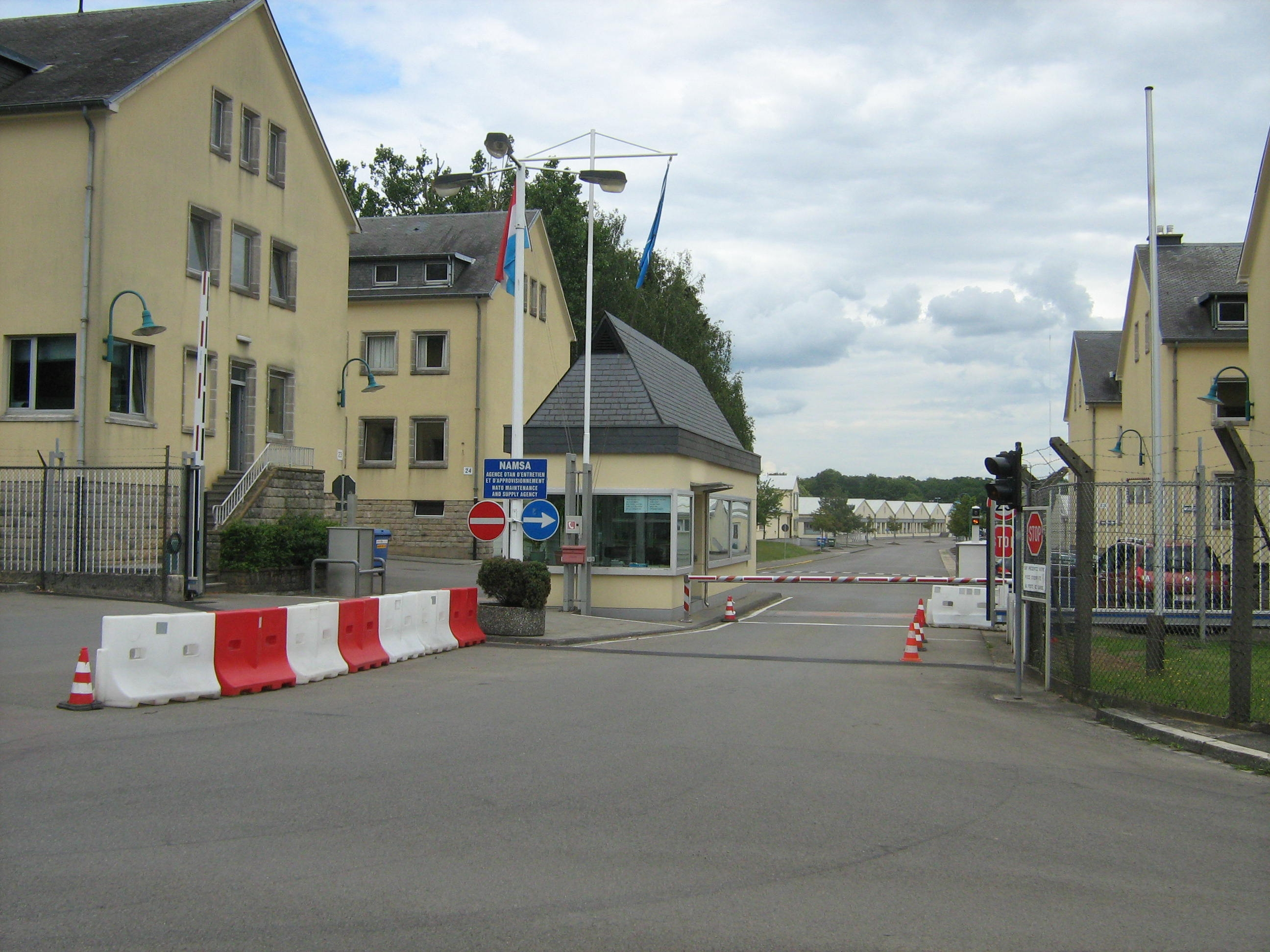 NAMSA, soon NSPA (NATO Support Agency), in Capellen, Luxembourg. Main entrance.